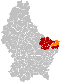 Own edit of Kanton EchternachLocatie.png